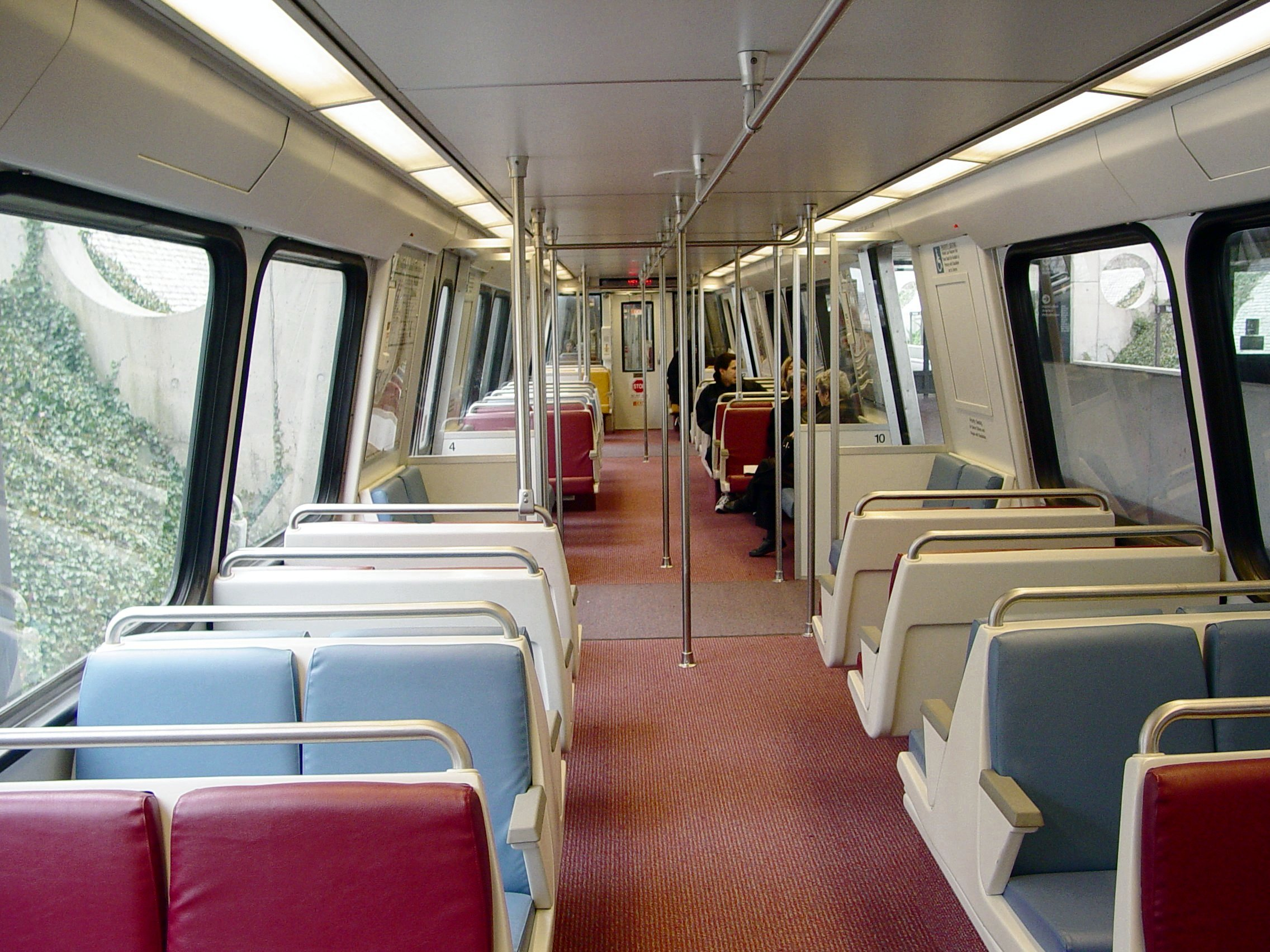 Interior of Breda 2075 on the Washington Metro. Photo taken January 17, 2004 by Ben Schumin.